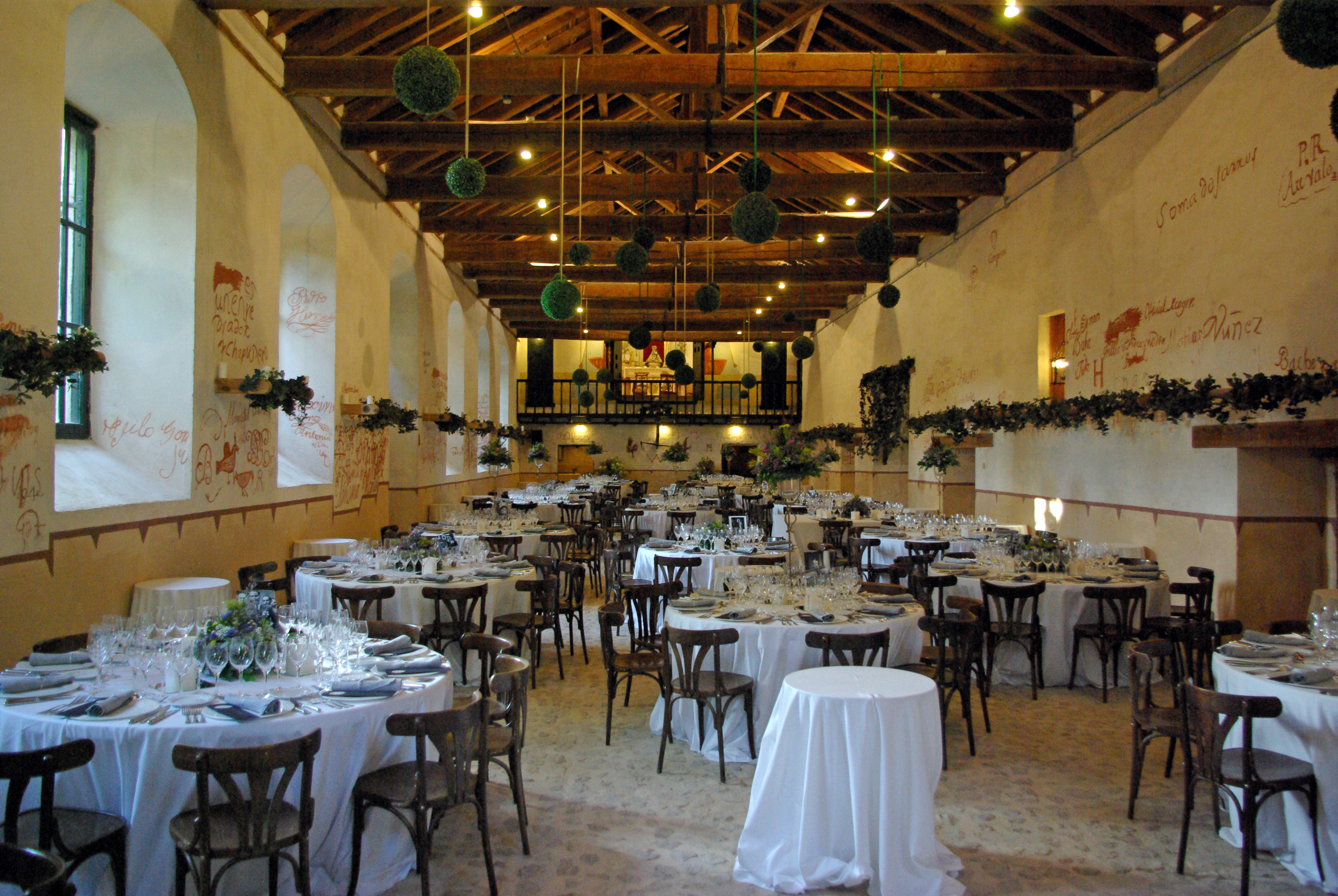 Inside sheep shearing shed in Cabanillas del Monte, Torrecaballeros (Segovia, Spain).